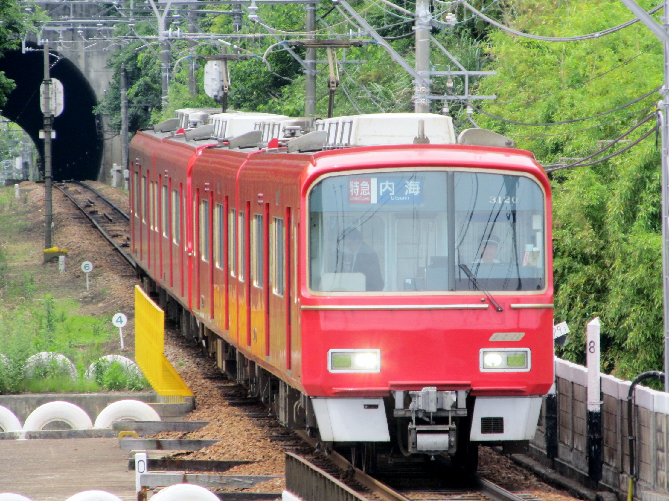 Meitetsu 3100 series and 3100 series. Limited Express bound for Utsumi.